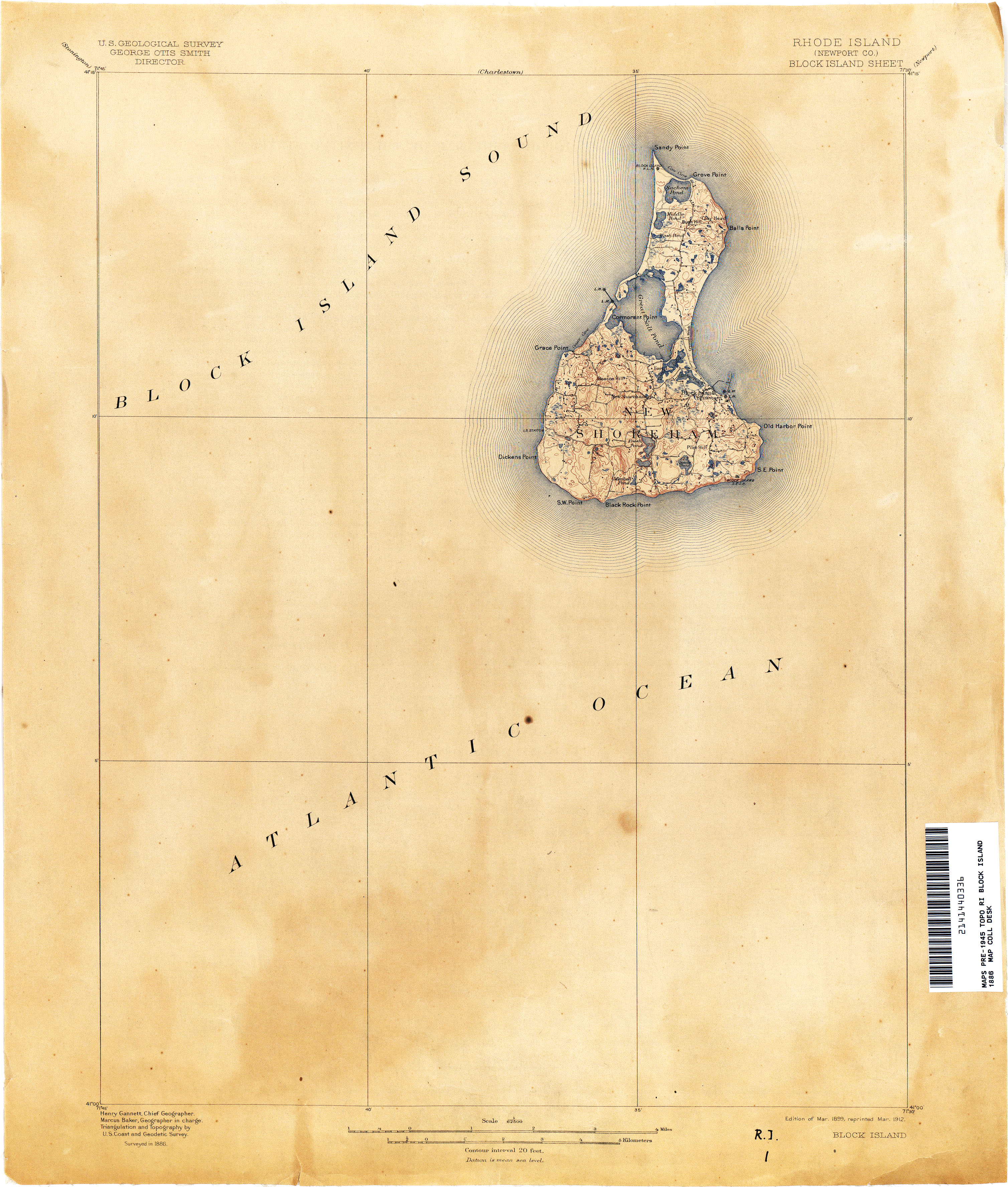 map of Block Island, Rhode Island, USA